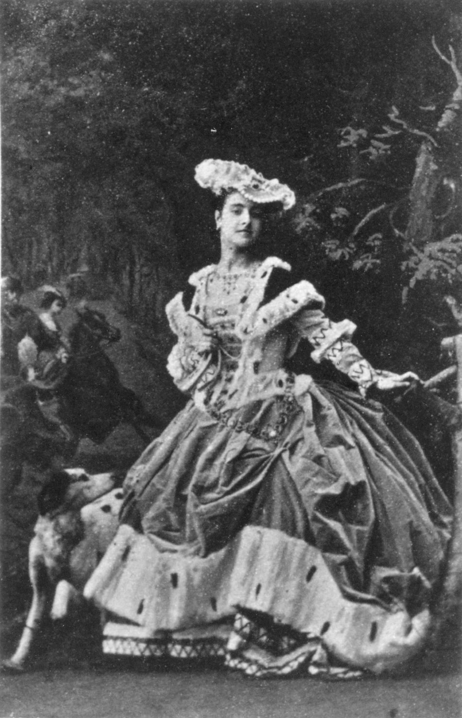 Adelina Patti as Harriet in the opera Martha by Friedrich von Flotow